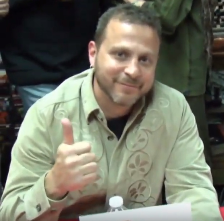 Kenn Scott at Tara Cardinal's Japan Relief Celebrity Event || Hosted by Tara Cardinal || Sponsored by: Dark Delicacies, BleedFest Film Festival , Video By: Kenneth Gadoua for